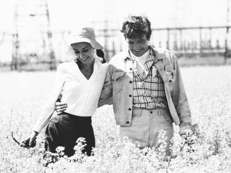 Audrey Hepburn & Albert Finney in the scene taken for film Two for the Road (1967). See also film still. No copyright notice.